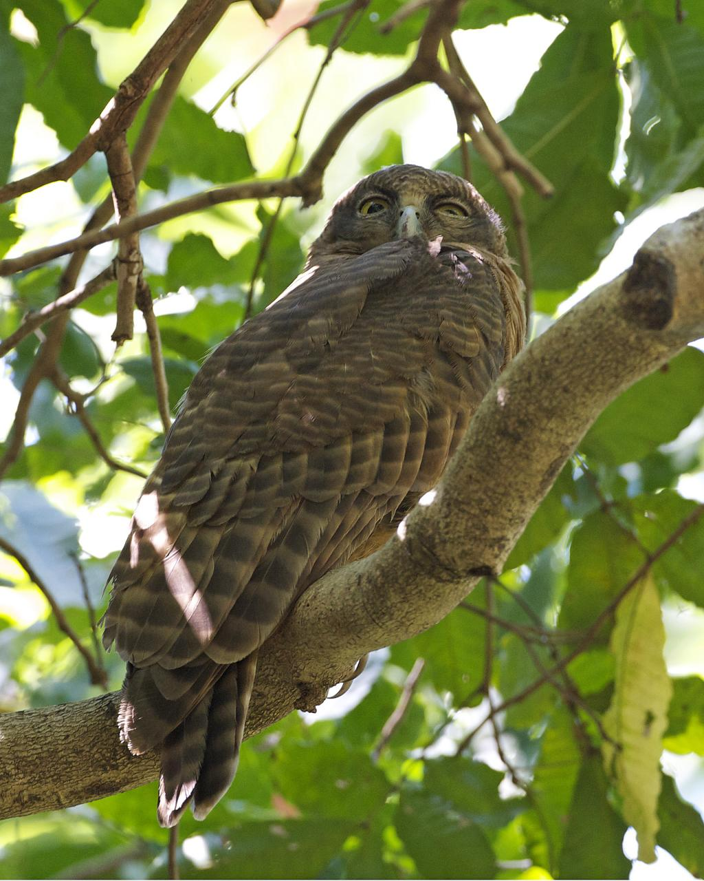 Rufous Owl - bleary eyed Ninox rufa Botanical Garden, Darwin, Northern Territory, Australia August, 2010 Distribution: 690V0519